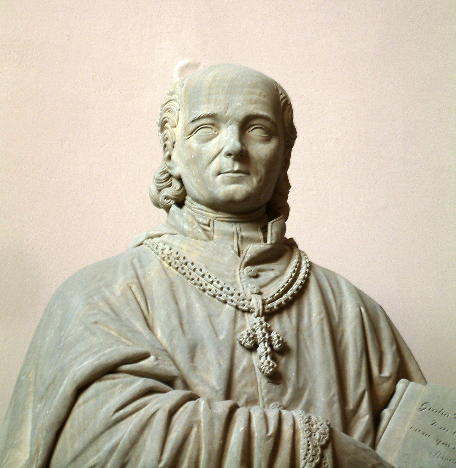 Epitaph of bishop Marcin Dunin in Poznań Archcatherdral Basilica (closeup)